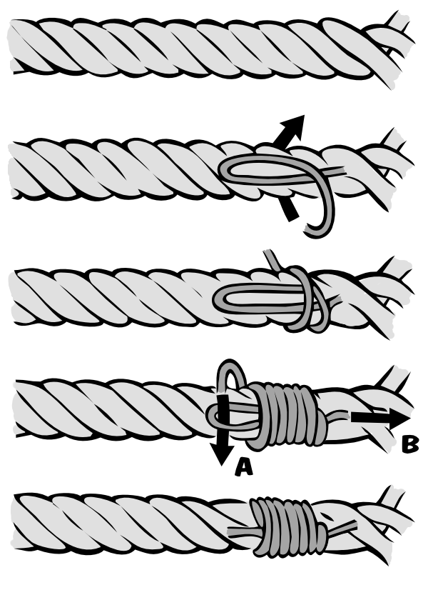 Bind a common whipping (all steps). From Image:Common-whipping-binding.png.